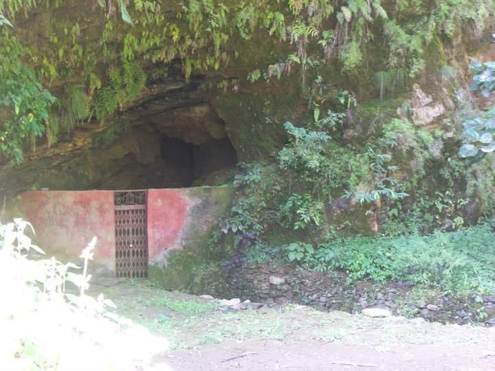 Cave gate